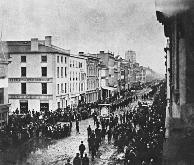 Orangemen's Parade in the late 1860s on King Street East, Toronto, Canada. This photo can be dated by the absence of the spire on St. James Cathedral visible in the distance. The spire would not be added until 1875, while the camera's ability to freeze motion in a short exposure time dates the photo to no earlier than the late 1860s.